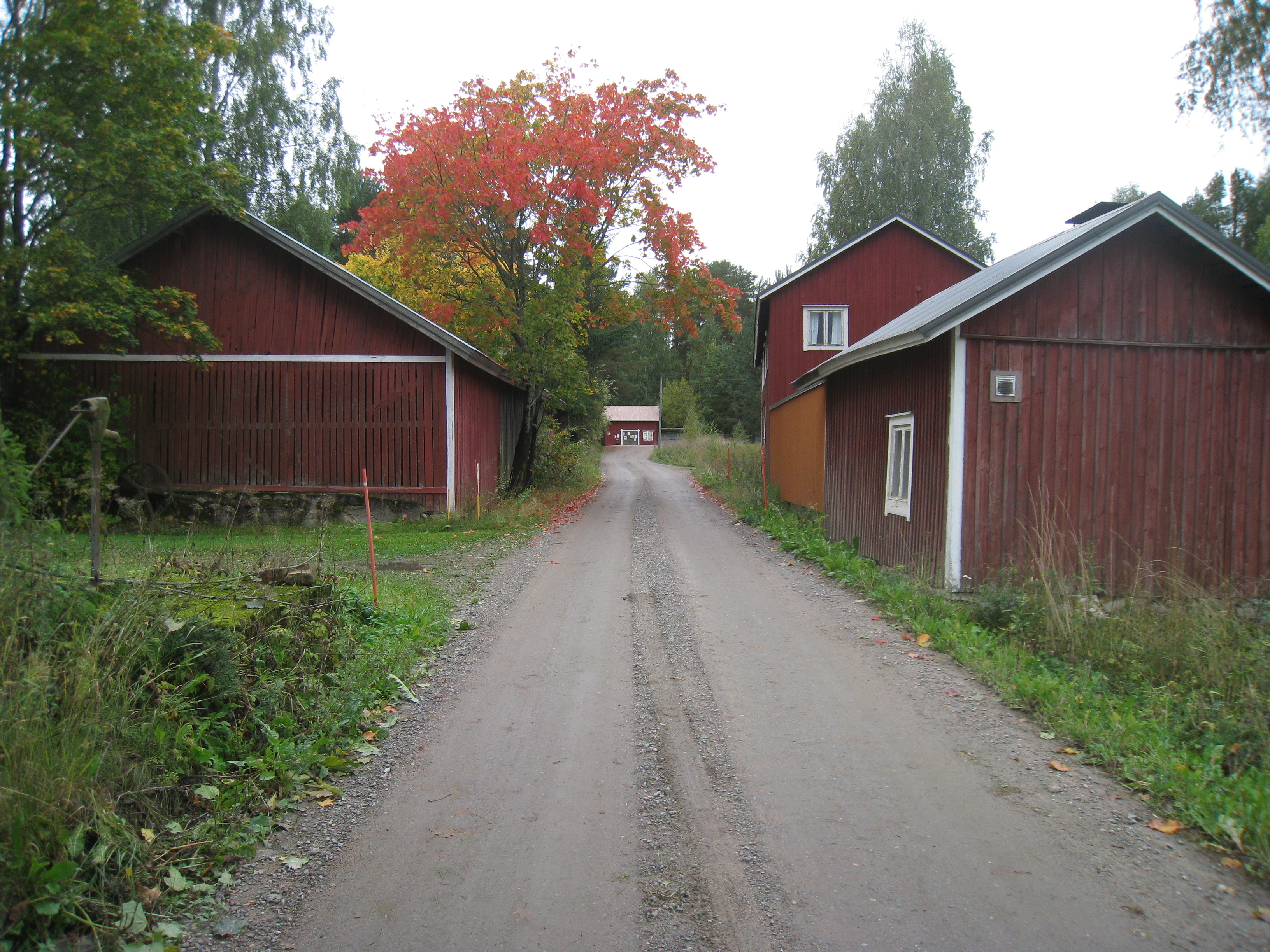 Torvoila village in Hauho, Hämeenlinna, Finland.